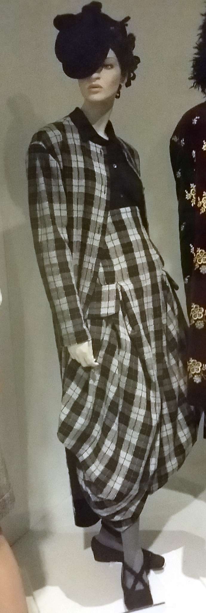 Grey and black plaid ensemble selected as Dress of the Year, 1987